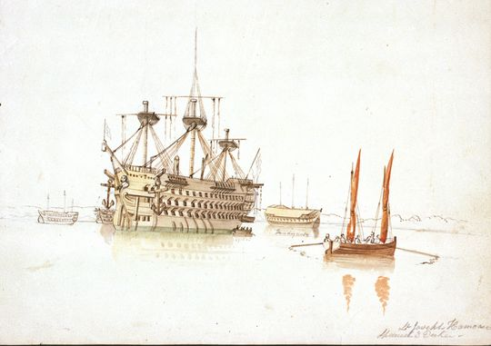 St Joseph Hamono Spanish 3 Decker